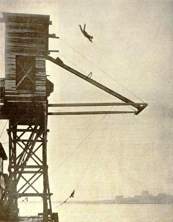 Still showing a dive for the American film serial The Great Gamble (1919) which the caption states was made by Charles Hutchison, on page 720 of the July 19, 1919 Motion Picture News.